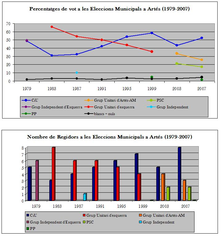 Graphics about the municipal elections in Artés on the 1979-2007 period.